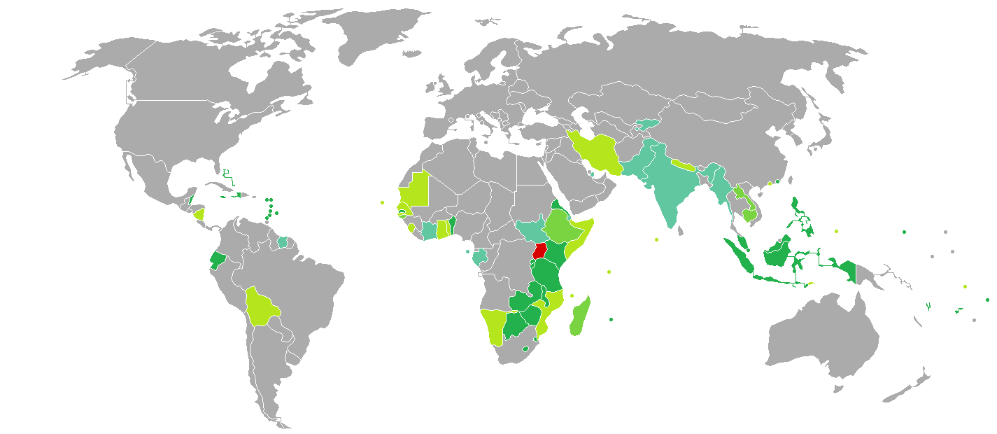 Visa requirements for Ugandan citizens Uganda Visa-free Visa on arrival eVisa Visa available both on arrival or online Visa required